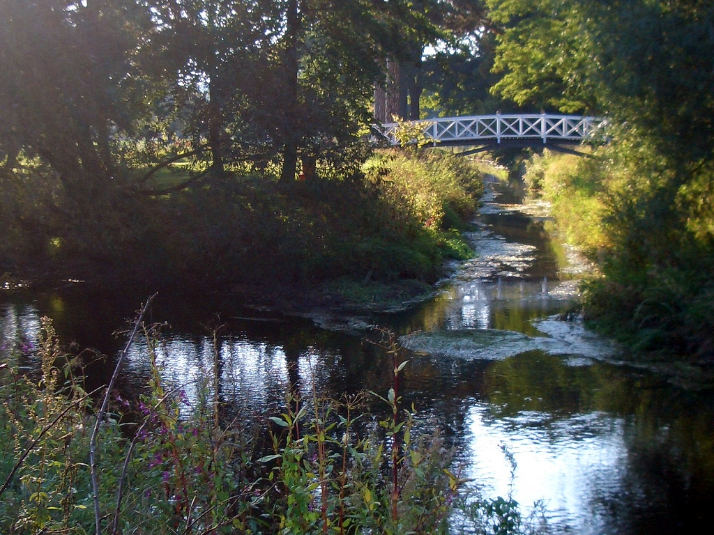 Mouth of Warne near Dorstadt